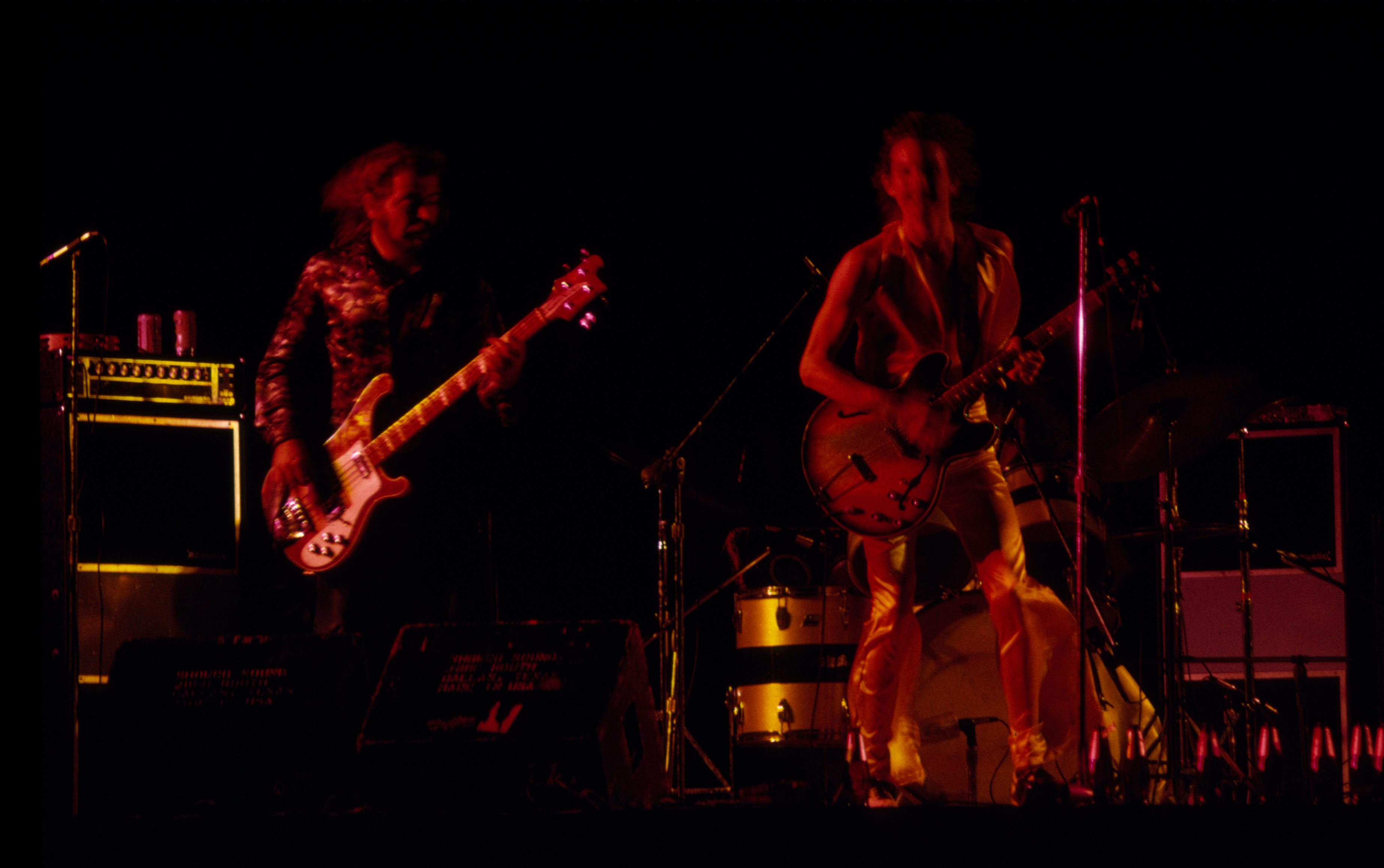 John Nitzinger plays at a rock festival near Fort Worth, Texas, 1973.